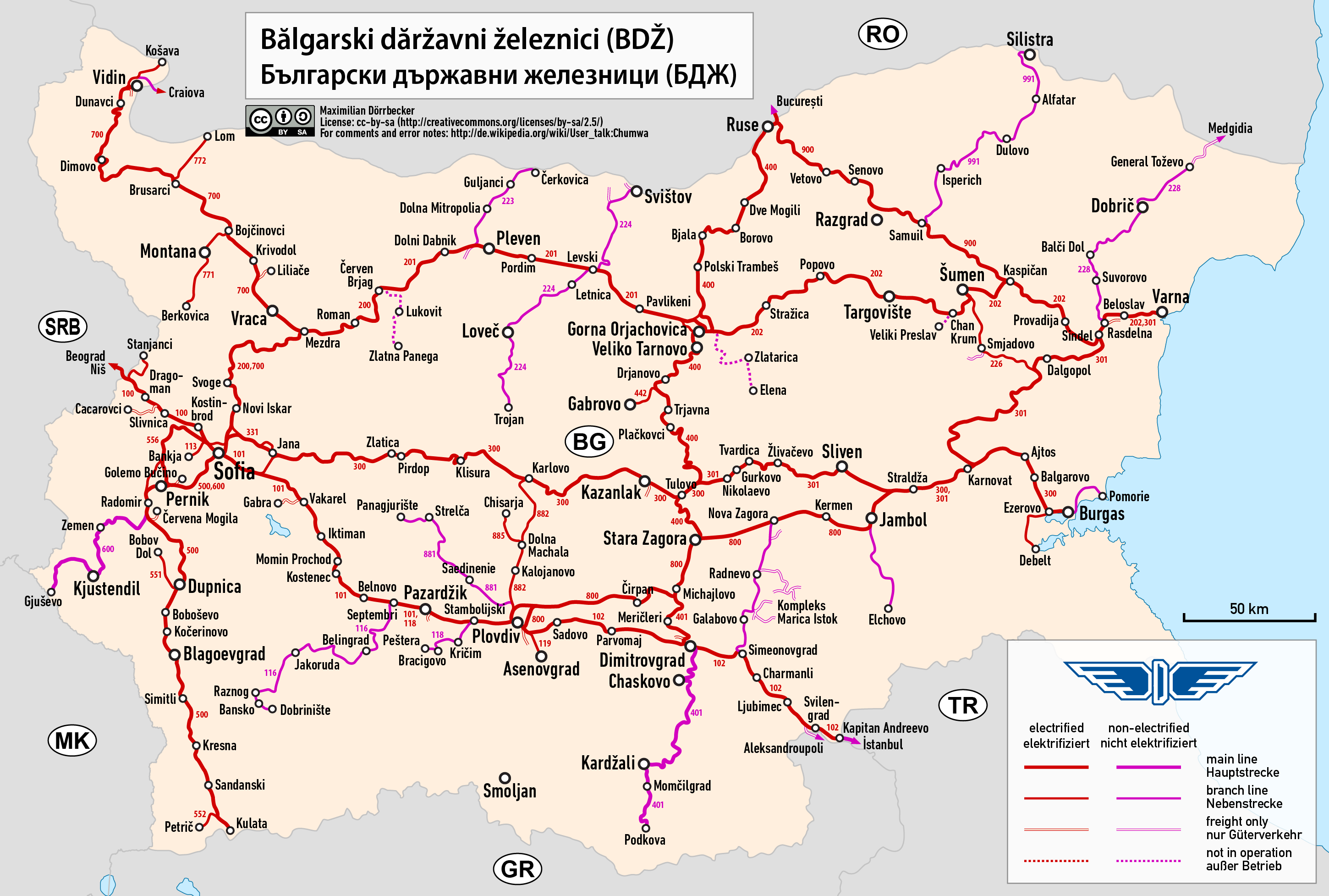 Railway map of Bulgaria